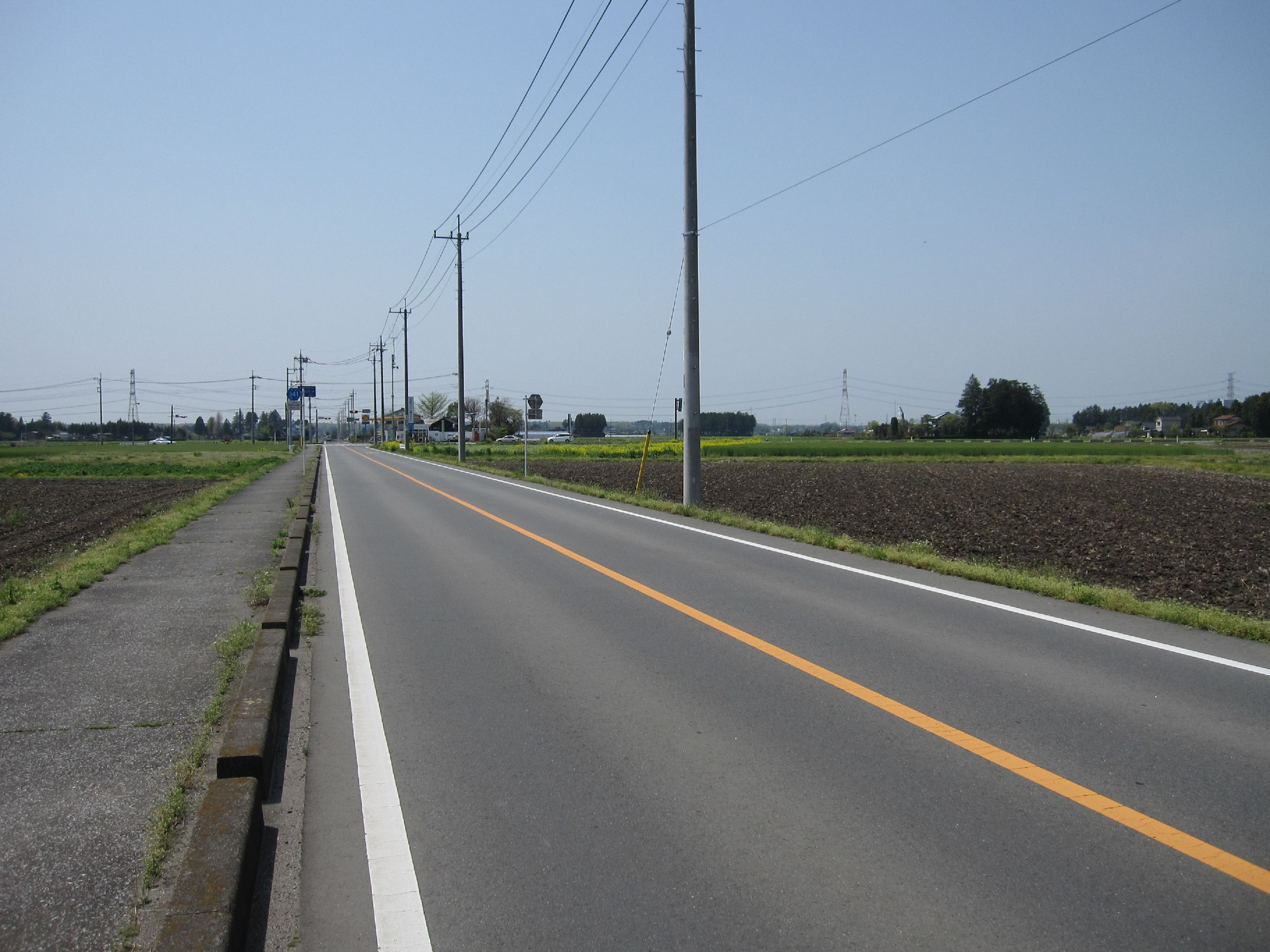 Tochigi prefectural road No.341 on Takanezawa town